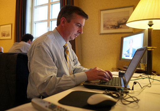 White House Counselor Ed Gillespie at work on the Mideast Trip Notes Thursday, Jan. 10, 2008, at the King David Hotel in Jerusalem. White House photo by Eric Draper